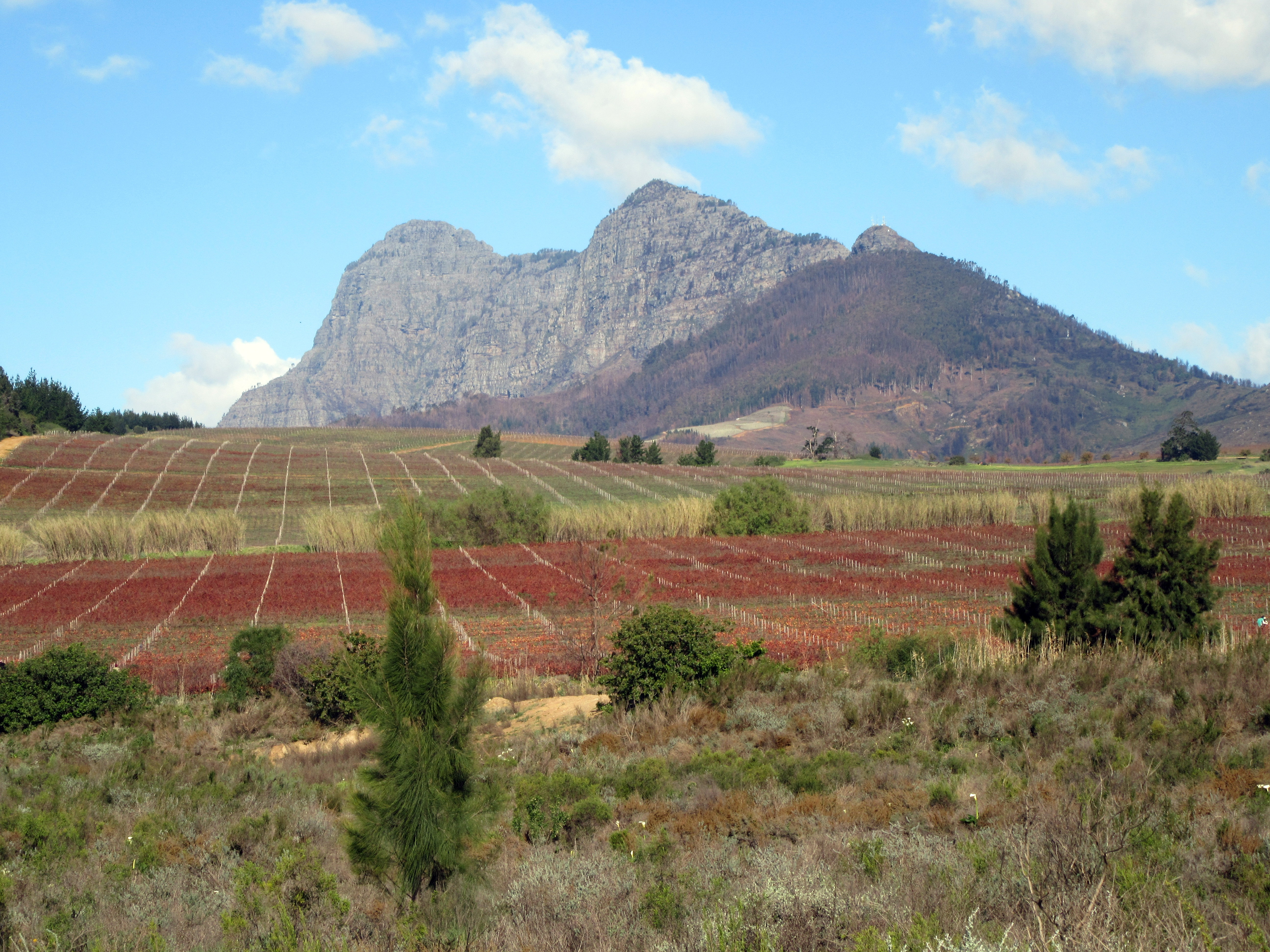 Stellenbosch wine region South Africa